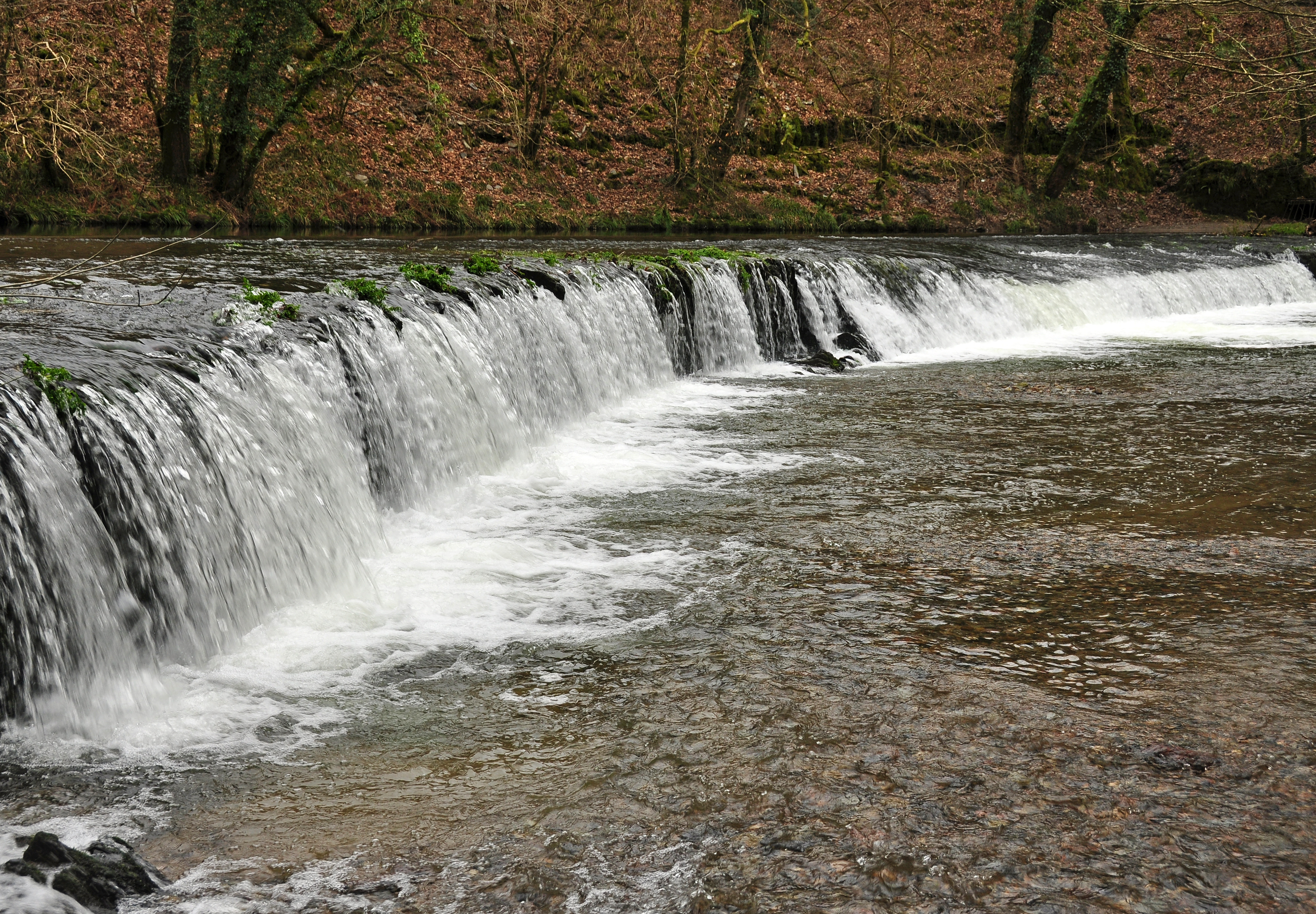 The weir on the River Plym at Cann Quarry, near Plymouth, Devon. The weir supplies the headwater for the Cann Quarry Canal.